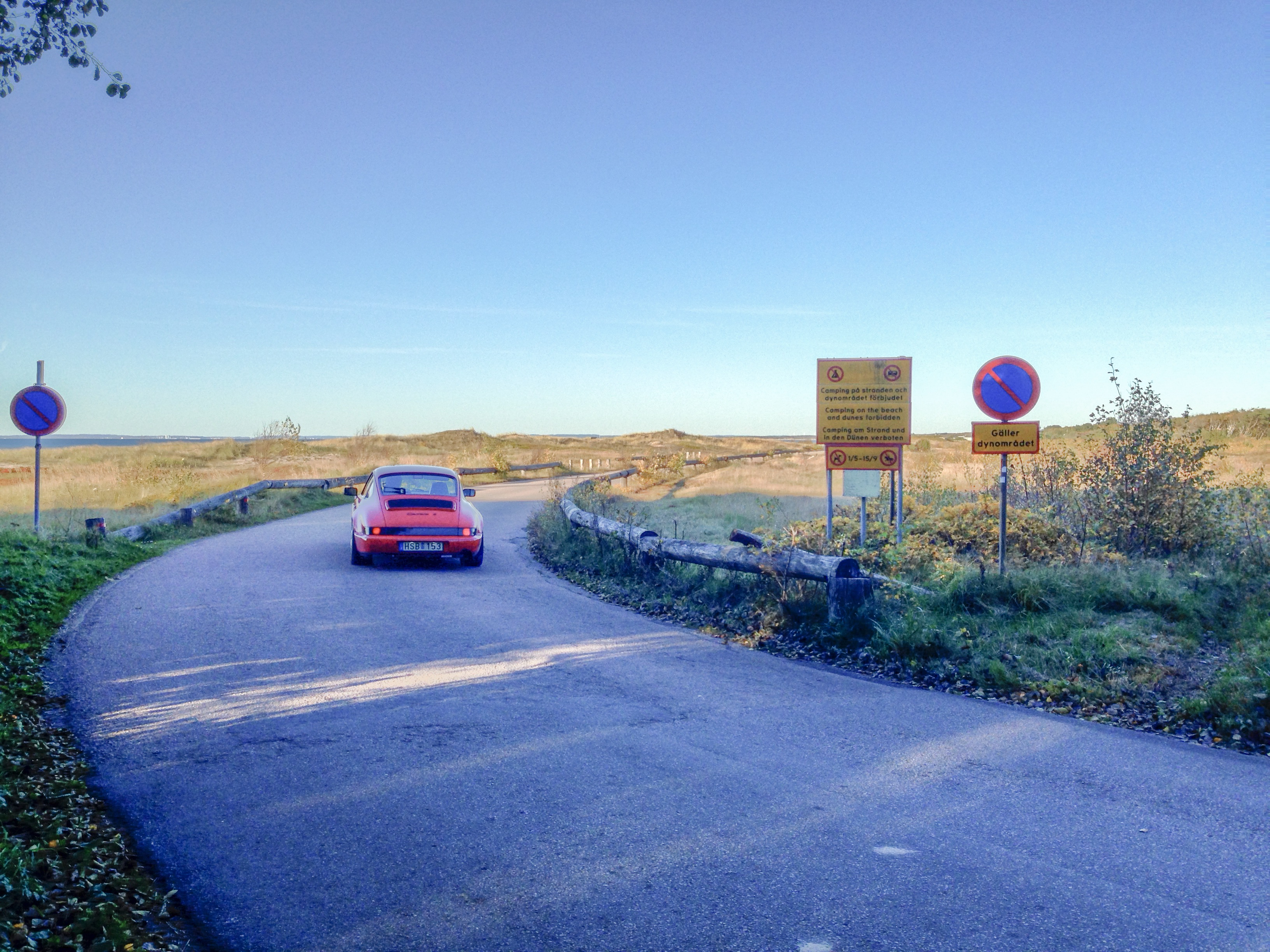 Road, Eskilstorpsstrand, Båstad